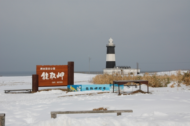 Notoromisaki cape, Abashiri, Hokkaido, Japan on March, 2006. 能取岬 (北海道網走市) 、2006年3月撮影 Photographer ほくなん, this work is in PD